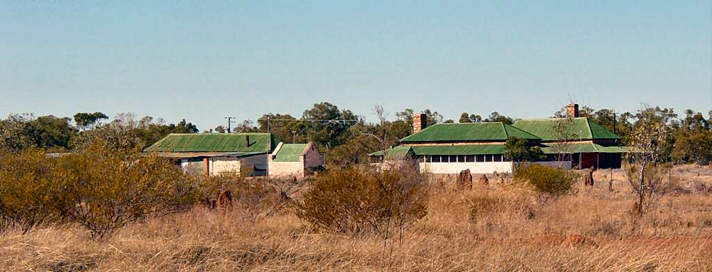 Taken and supplied by Brian Voon Yee Yap.